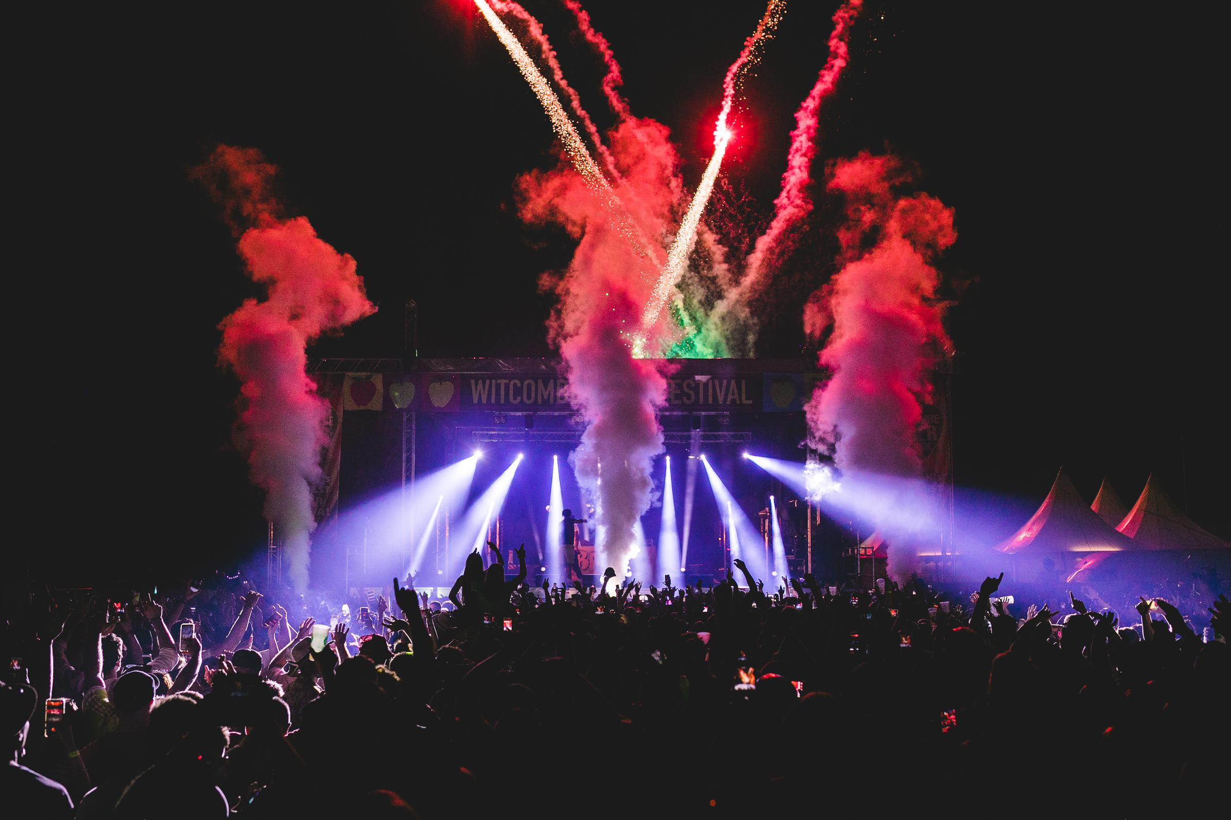 Witcombe Festival main stage, pyrotechnics, fireworks, smoke, co2 cannons and crowd